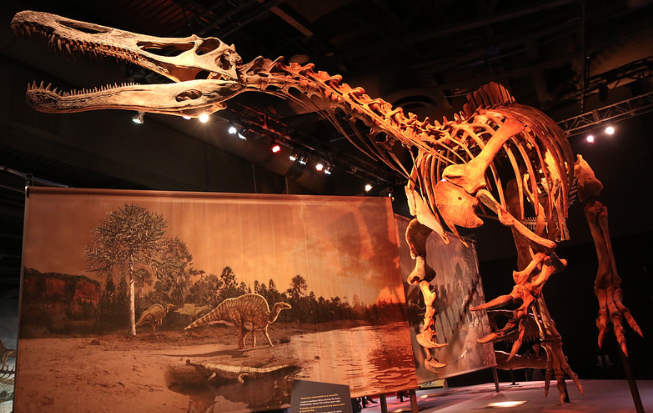 Suchomimus